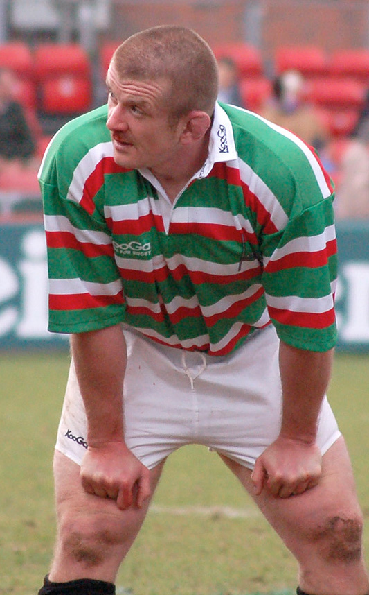 Graham Rowntree during the friendly match between Bath and Leicester teams of 1996 that took place in 2007.